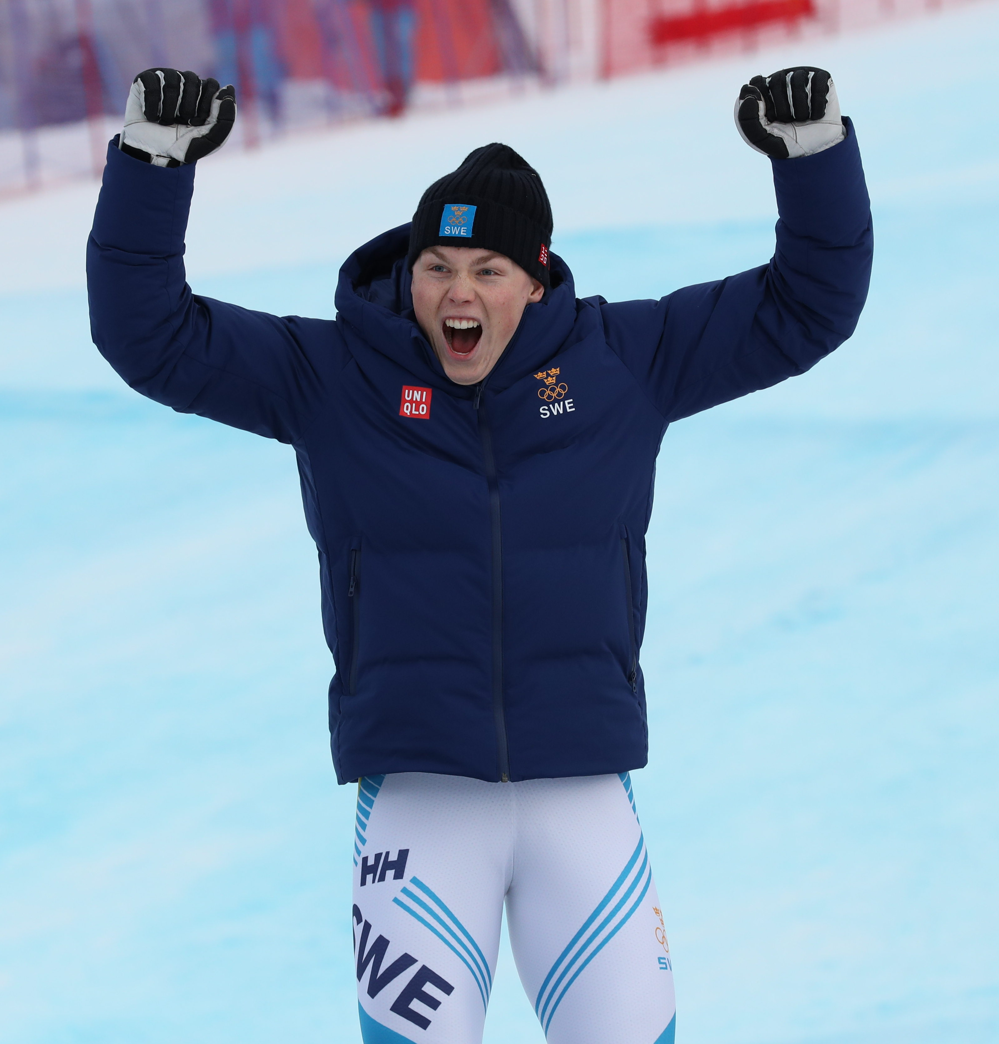 Men's Super G at the 2020 Winter Youth Olympics in Lausanne